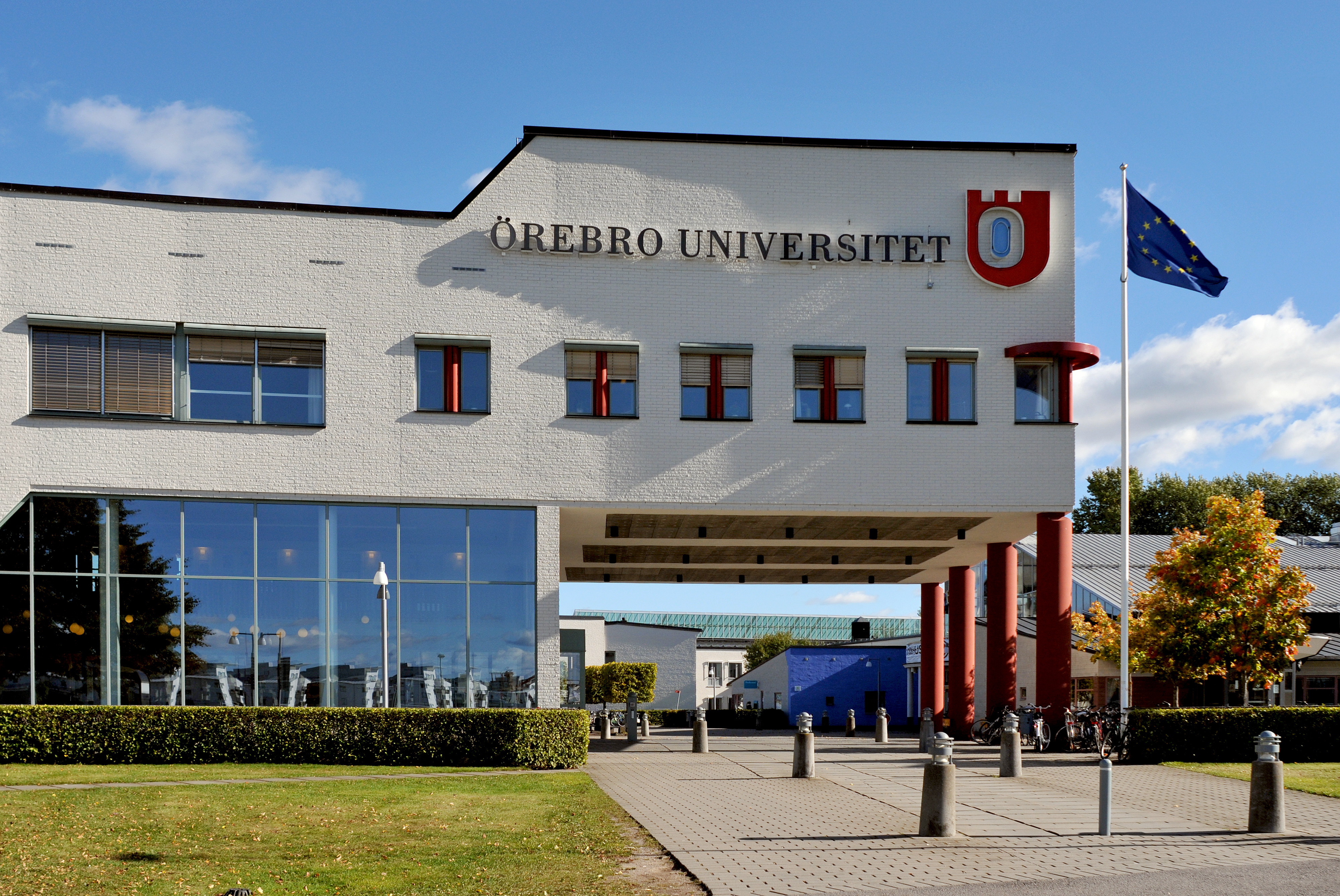 Örebro University, 2013.